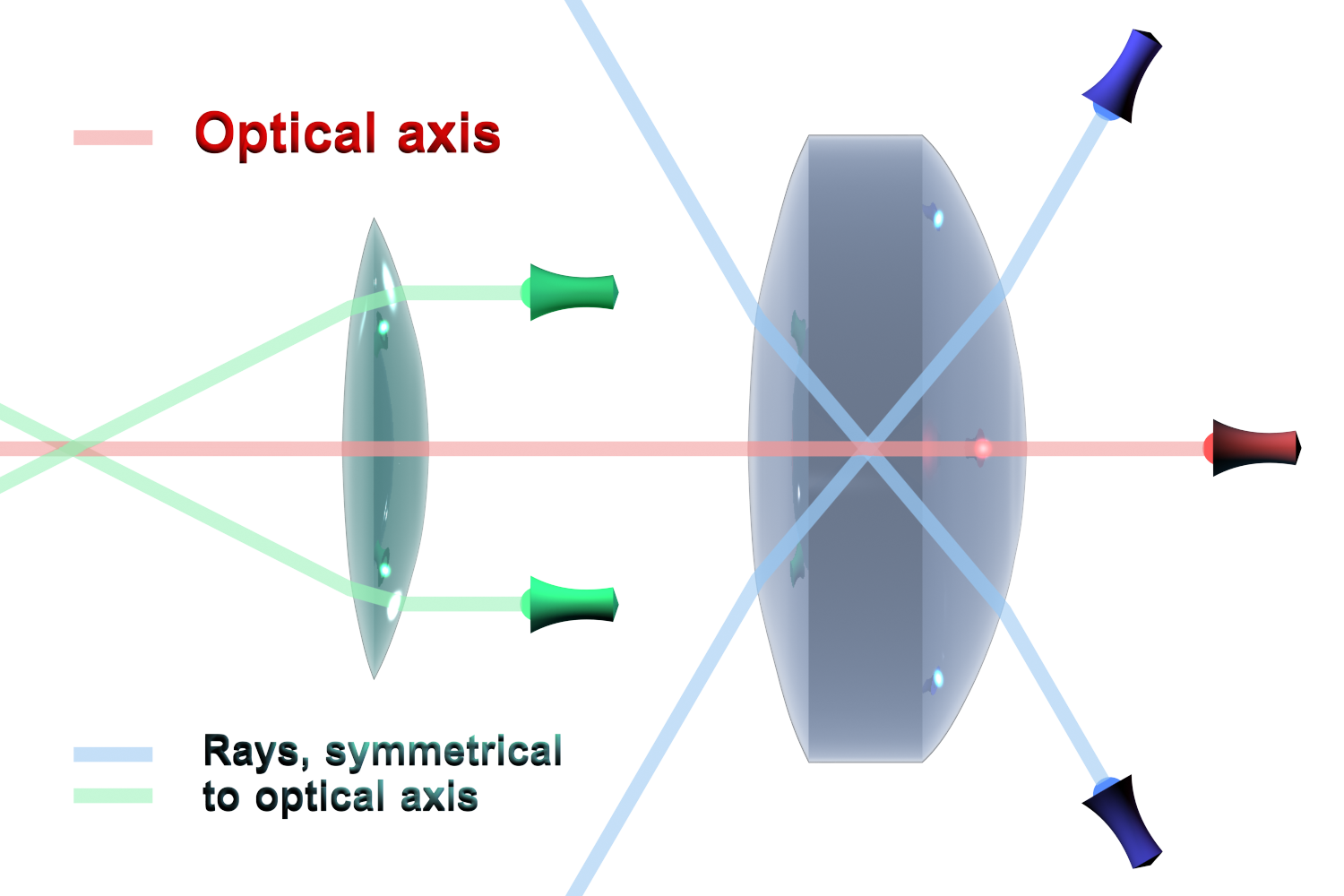 Optical axis (red ray) and rays symmetrical to optical axis (pair of blue and pair of green rays). See also: Optical_axis_no_labels.png